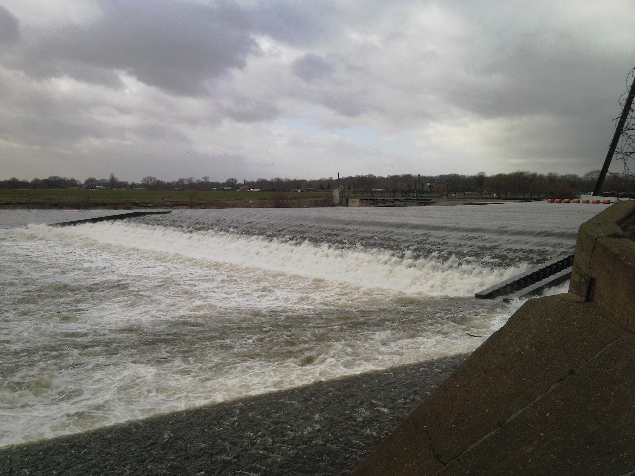 Beeston weir on the River Trent Taken by me John Beniston 5th February 2008